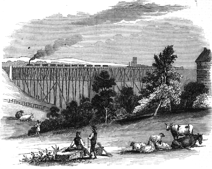 The original timber viaduct over the Sherburn, built by the Newcastle & Darlington Junction Railway